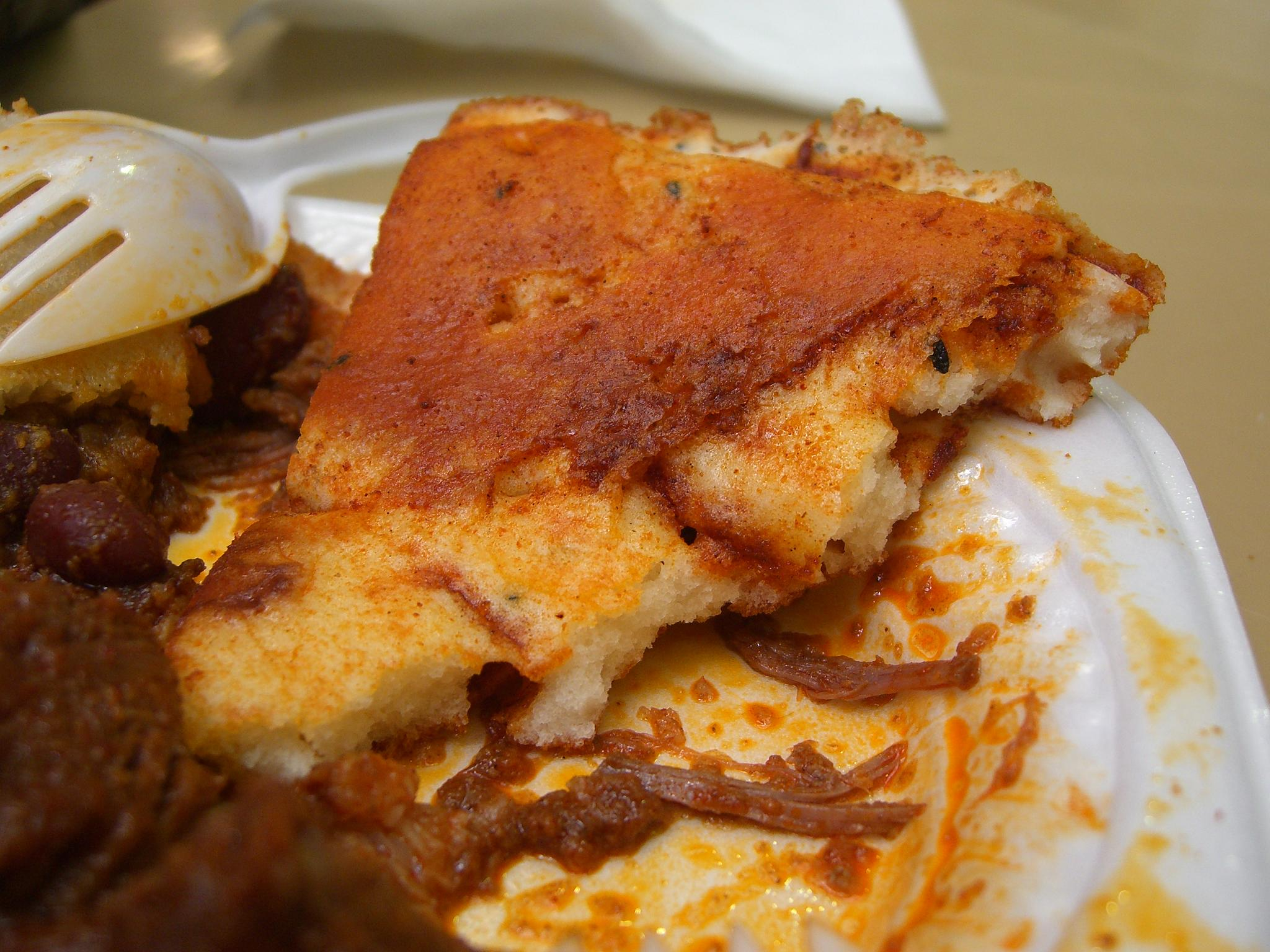 Ethiopian Cuisine from Old Bus Depot Markets Kingston ACT 2604